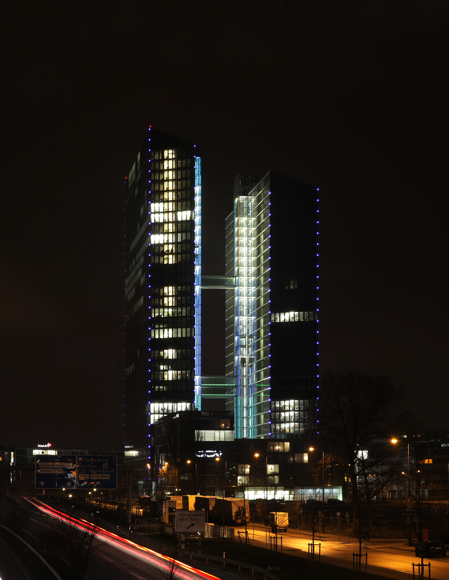 The Highlight Business Towers or Highlight Towers are a high-rise building complex with 2 towers and 70.000m² of office space. The towers have a height of 113 meters and 28 floors (westtower) and a height of 126 meters and 33 floors (easttower). It was drafted by the architects Murphy/Jahn (Chicago, USA)